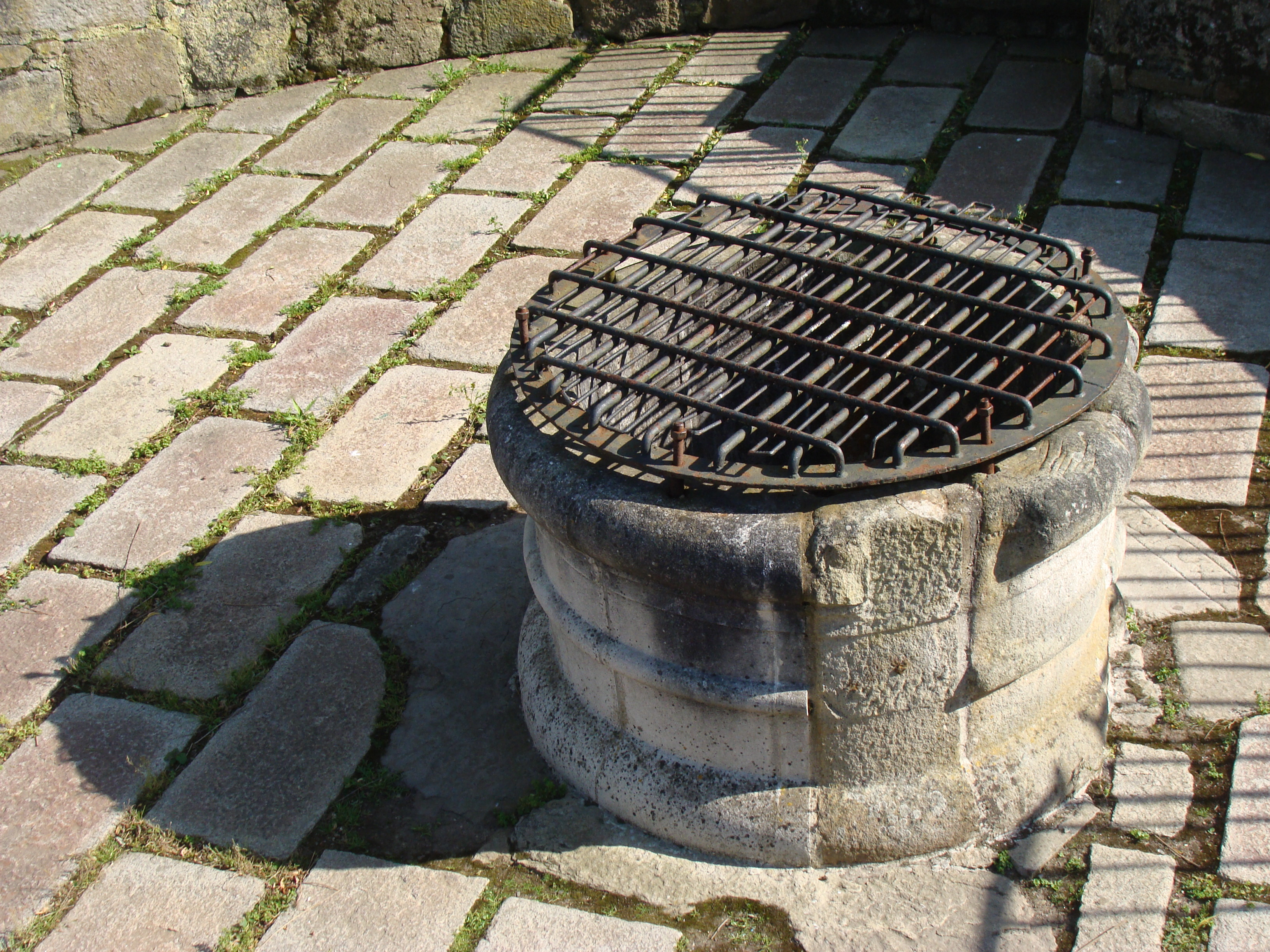 Water well of Convento de San Francisco, on Real Maestranza's Gardens, in Corunna, Galicia, Spain